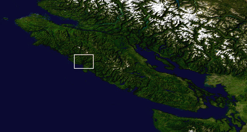 Satellite composition of the whole Earth's surface. I just added a small square to mark an area in the map.